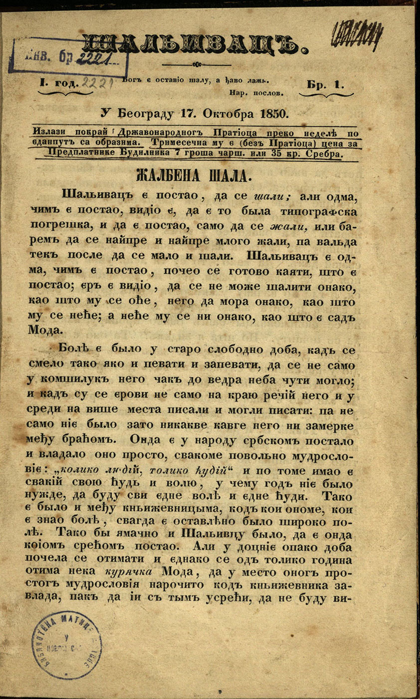 Cover of magazine Šaljivac, number 1, 1850, Belgrade, Serbia Srpski (latinica): Naslovna strana časopisa Šaljivac, broj 1, 1850, Beograd, Srbija.